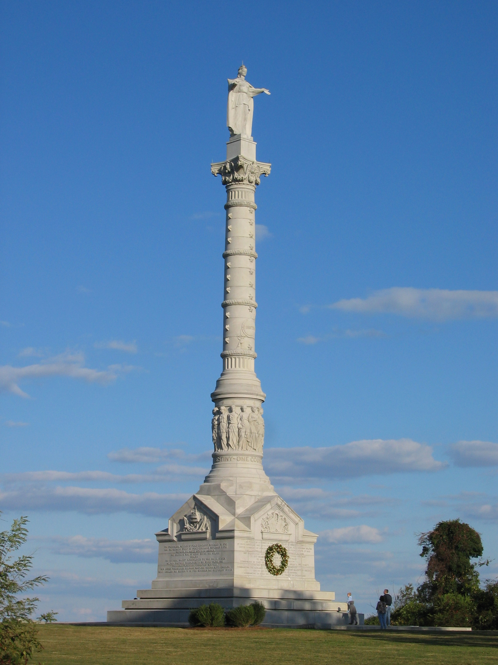 Yorktown Victory Monument Photo by User:AudeVivere